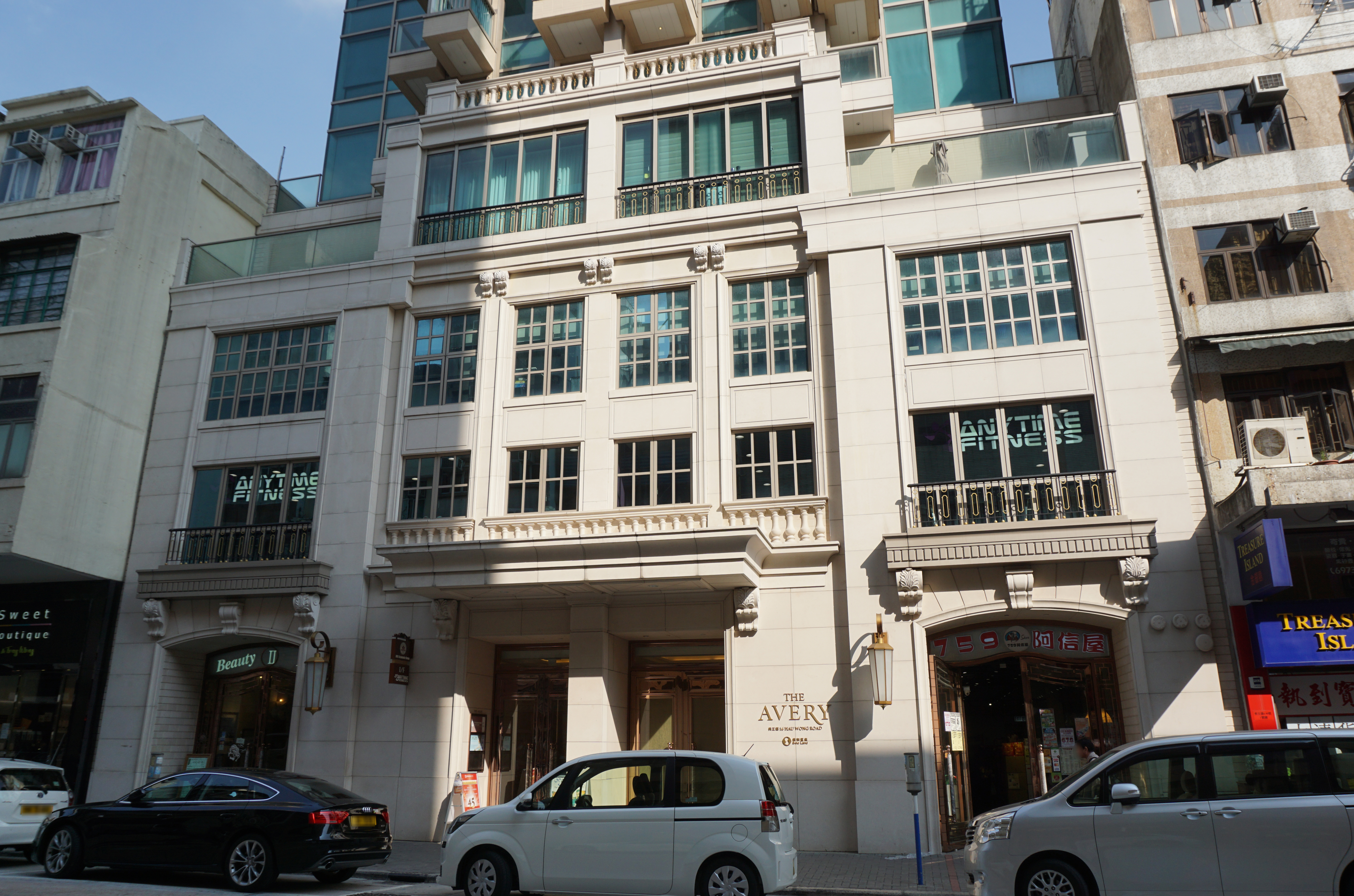 The Avery in Kowloon City, Hong Kong.